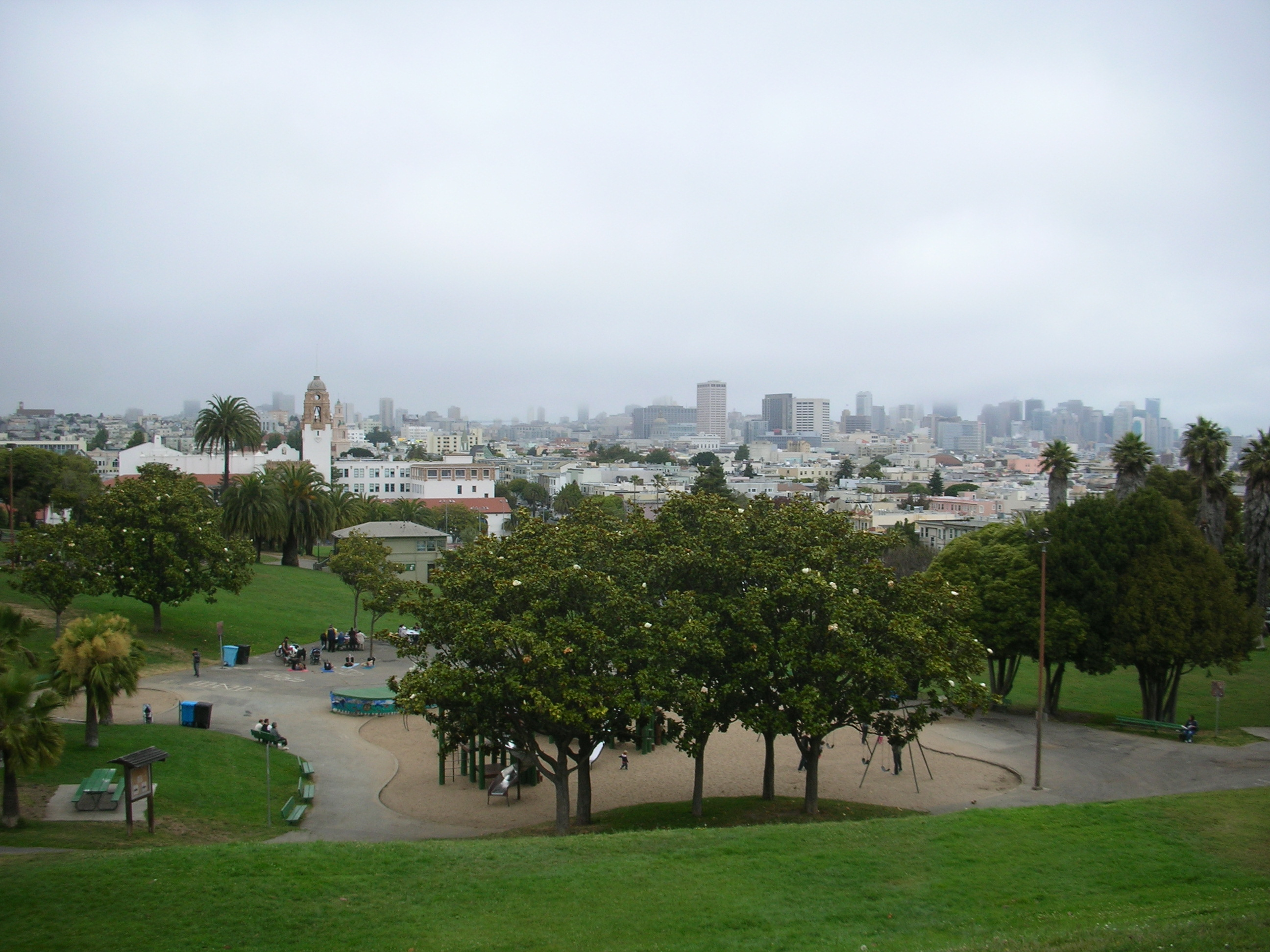 Dolores Park — in the Mission District, San Francisco.